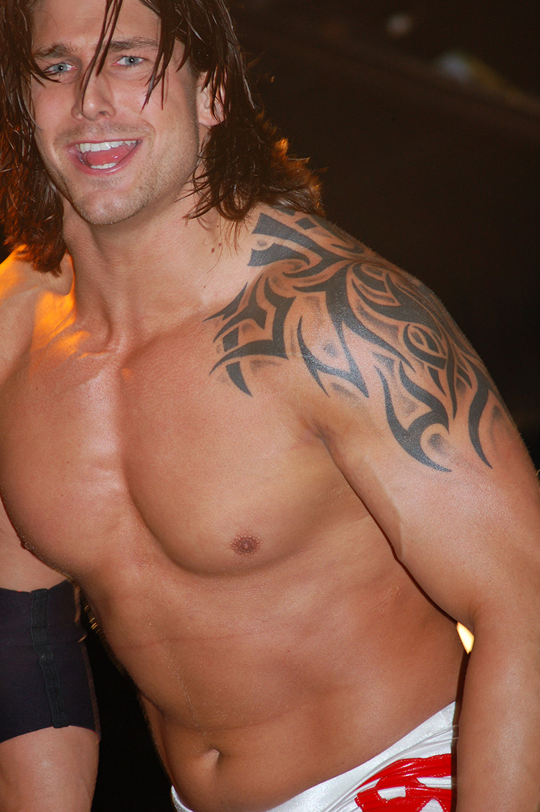 I took this photo of Johnny Prime on January 14th 2010 at the FCW arena in Tampa Florida.